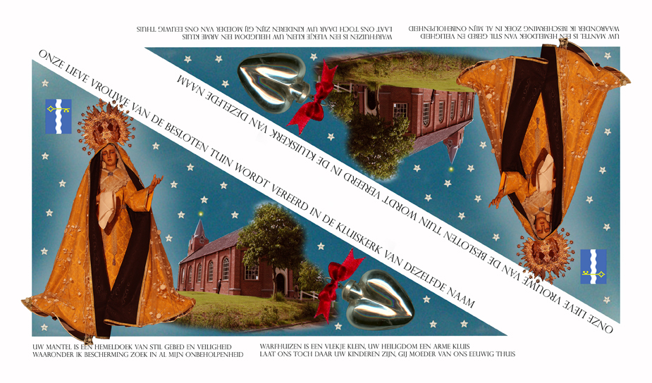 Pilgrimage flag Warfhuizen